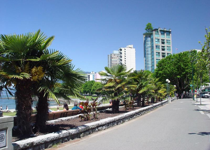 Palm trees at sunset beach in Vancouver, Canada.